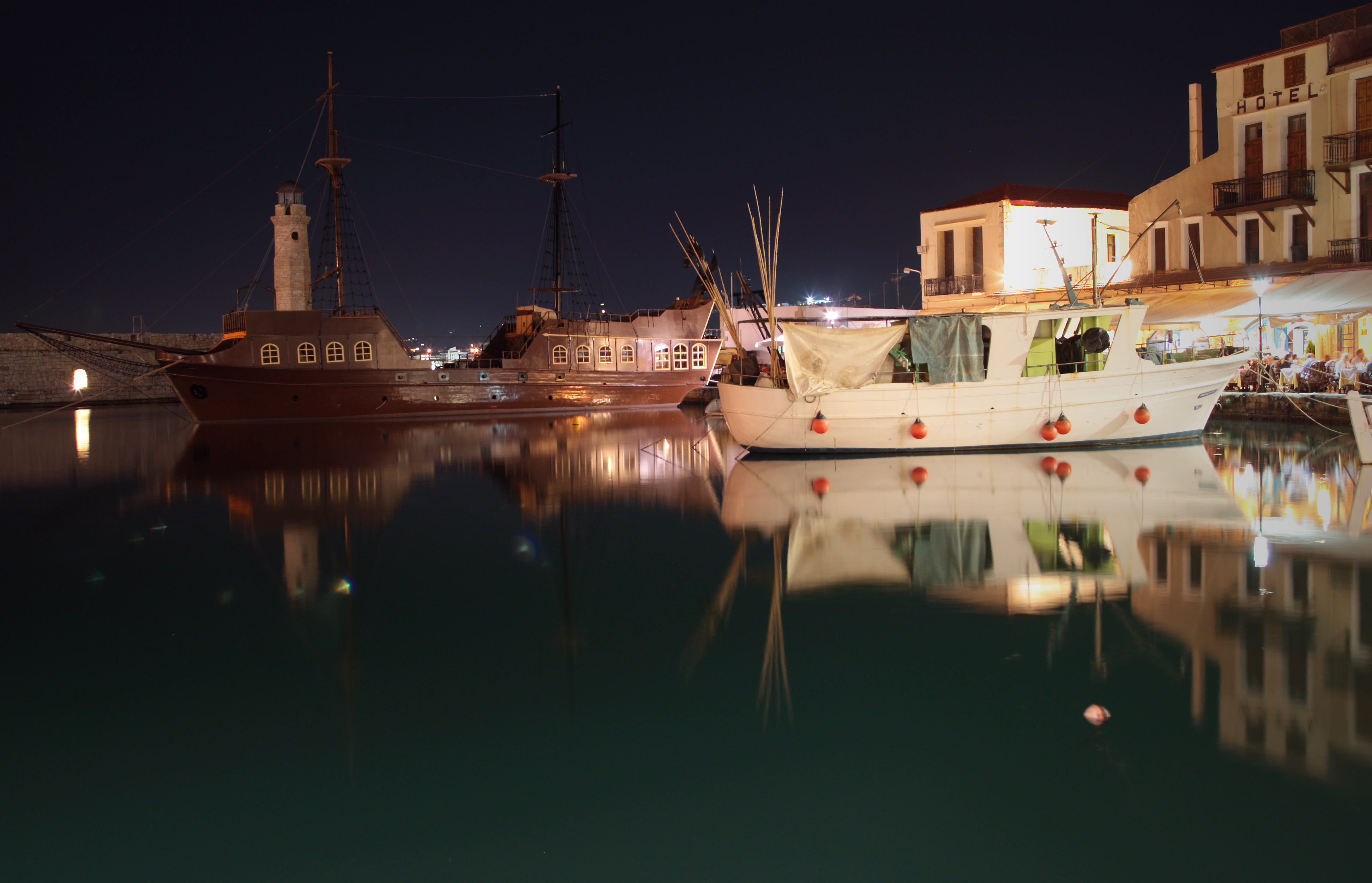 Old Venetian harbour of Rethymno